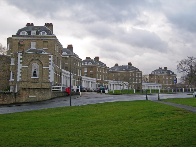 The Paragon, SE3 These flats overlook the heath.